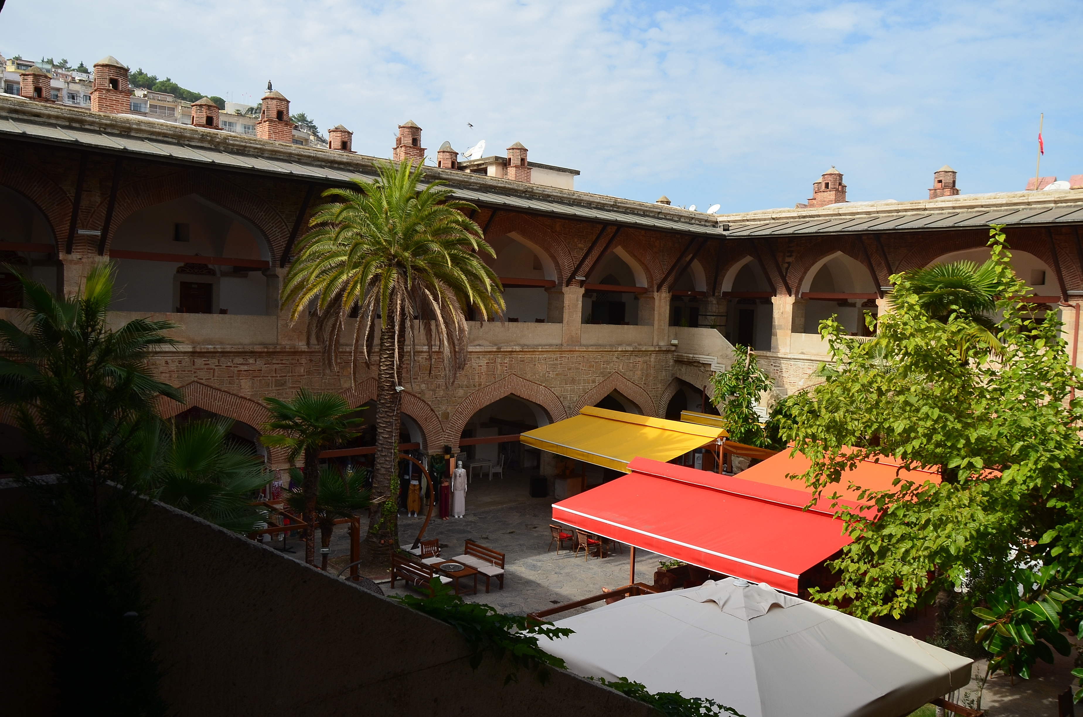 Öküz Mehmed Pasha Caravanserai in Kuşadası, Aydın